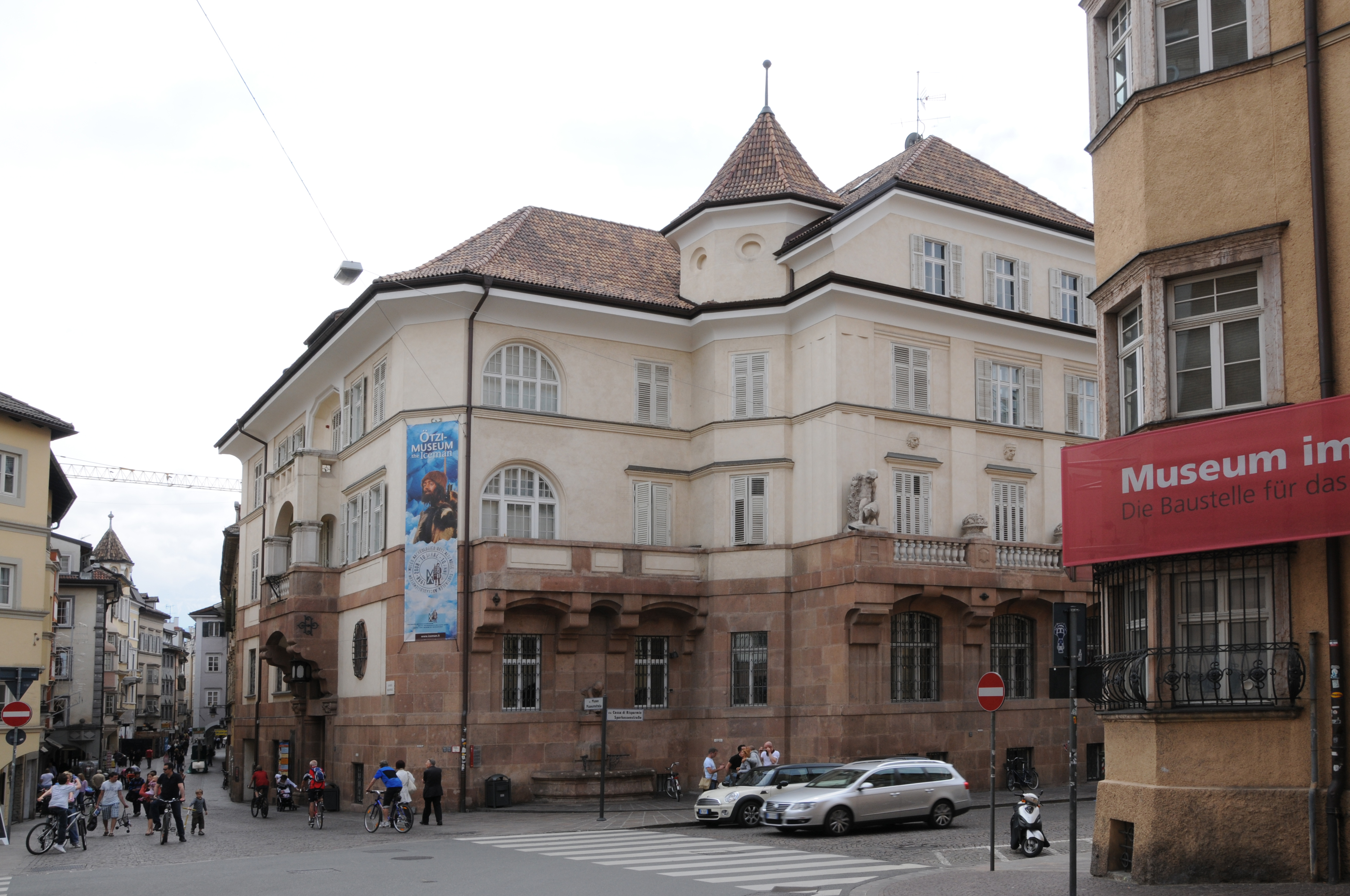 Archeological museum of South Tyrol, Bozen (it: Bolzano), home of the famous iceman